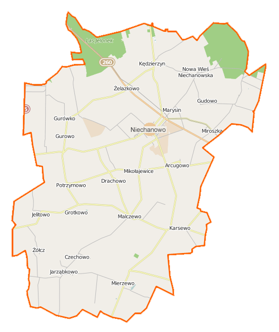 Map of Gmina Niechanowo, PolandThis map of Niechanowo (gmina) was created from OpenStreetMap project data, collected by the community. This map may be incomplete, and may contain errors. Don't rely solely on it for navigation.